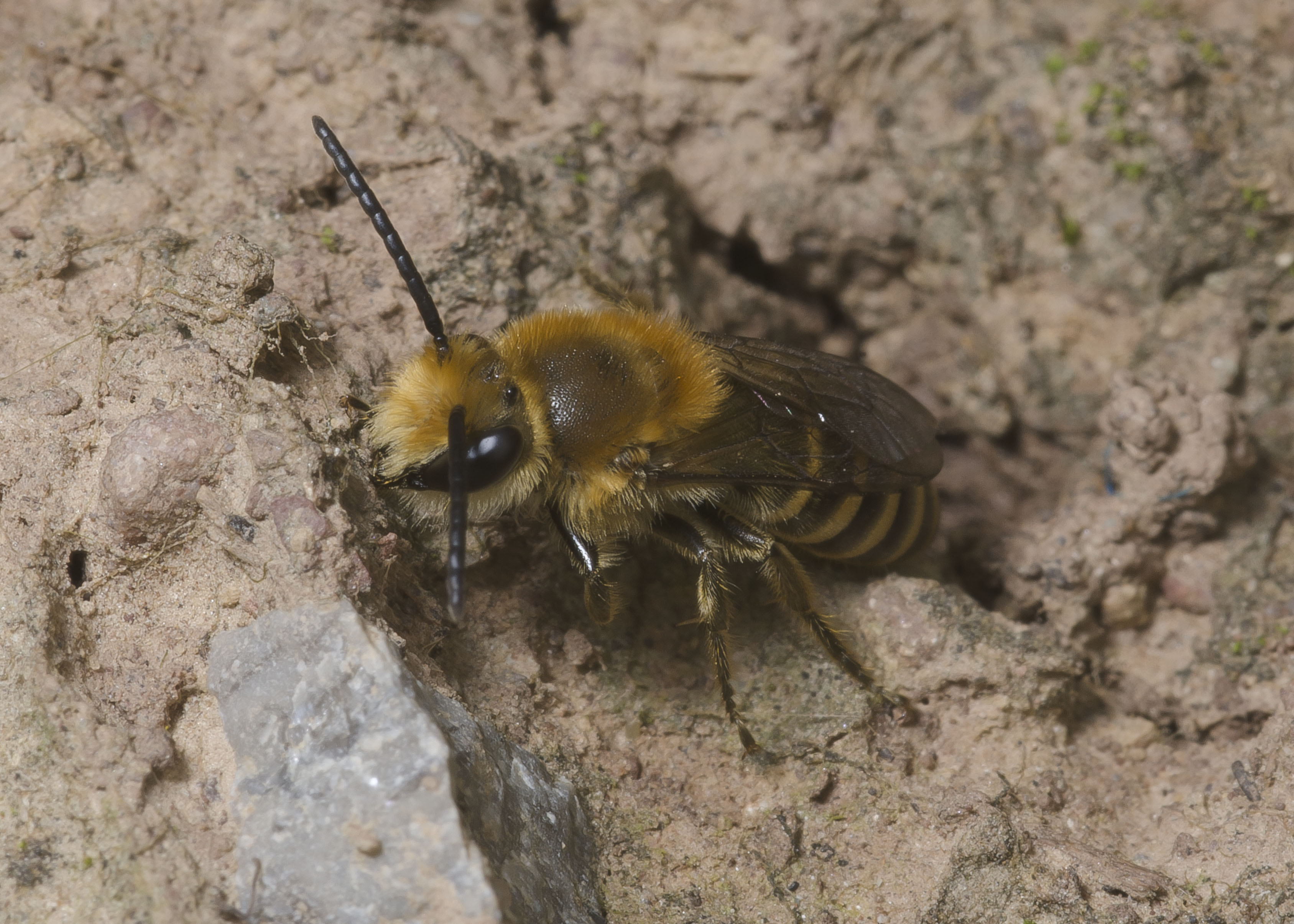 Ivy bee (Colletes hederae), photo taken in Stuttgart, Germany. Thanks to the members of Entomologie.de for the identification.